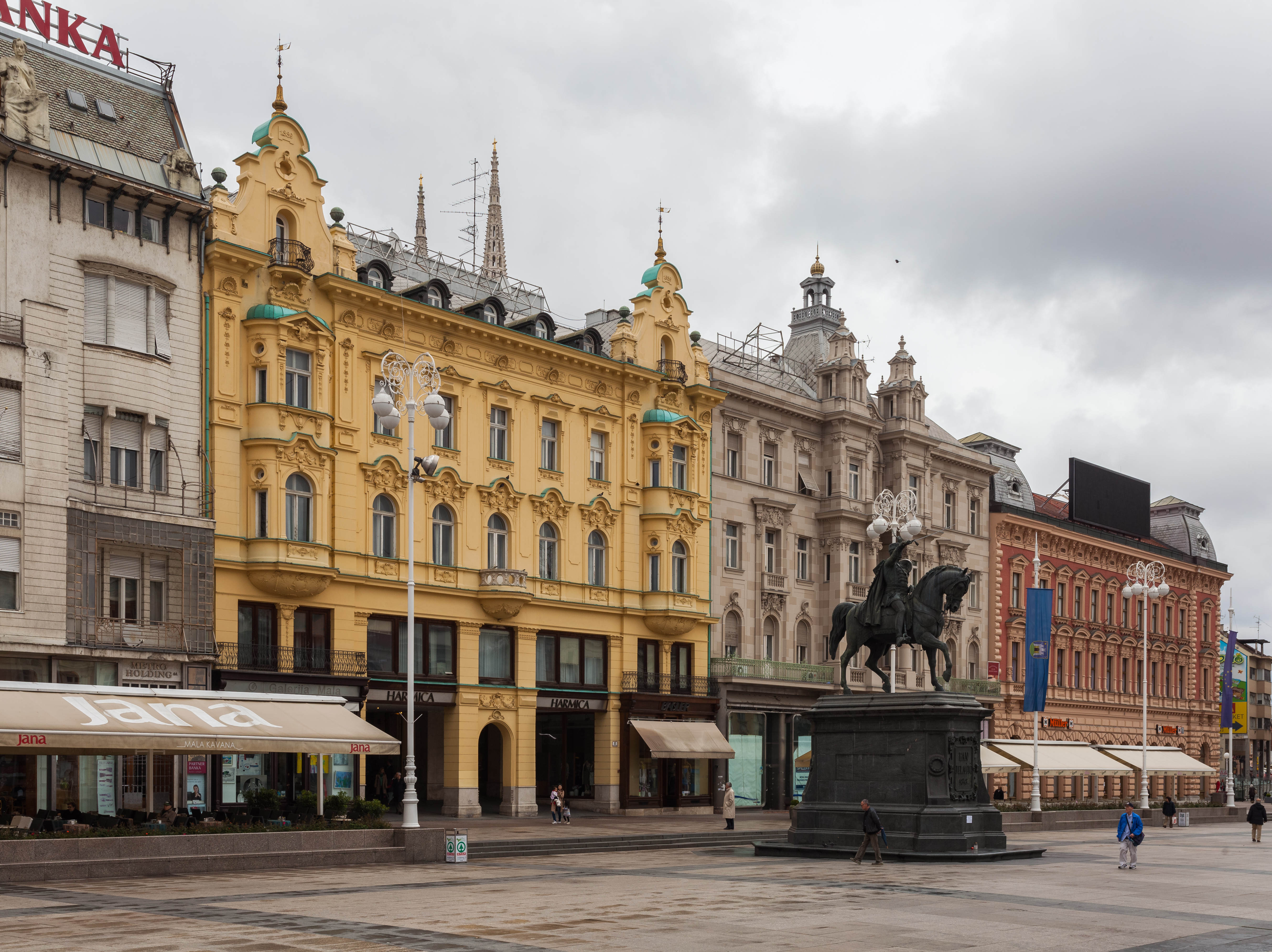 Ban Jelačić statue, Zagreb, Croatia